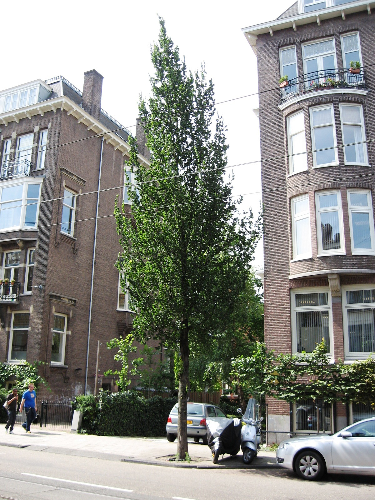 Ulmus 'Columella', koninginneweg amsterdam; Photo by Nijboer